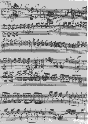 First page of D-B Mus. ms. Bach P 595, Fascicle 8, oldest surviving manuscript of Toccata and Fugue in D minor, BWV 565